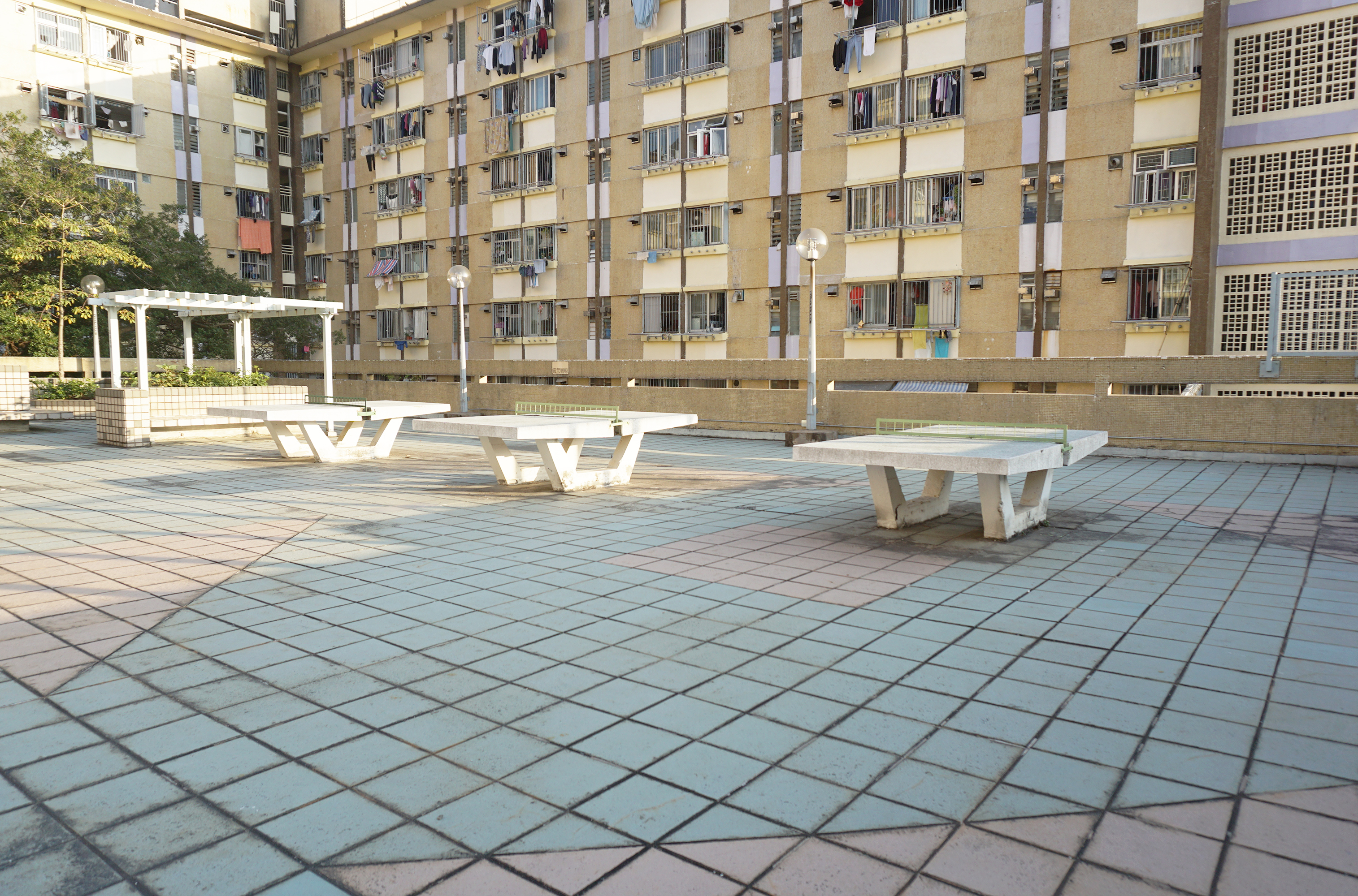 Chak On Estate in Tai Wo Ping, Hong Kong.